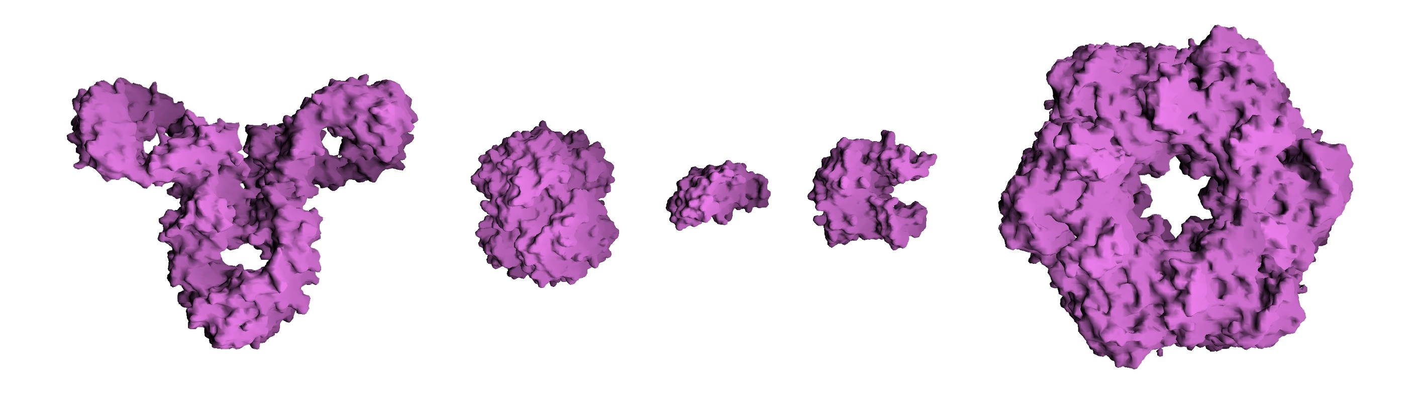 Molecular surface of several proteins showing their comparitive sizes. From left to right are: Immunoglobulin (IgG), Hemoglobin, Insulin, Adenylate Kinase, Glutamine Synthetase.